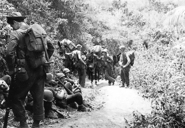 Merrill's Marauders rest during a break along a jungle trail near Nhpum Ga. 1944